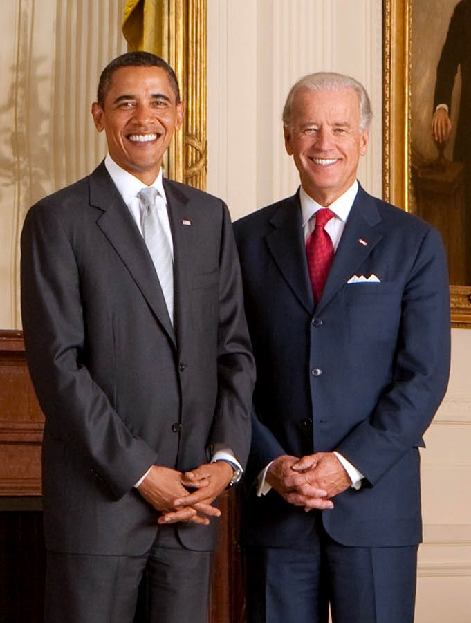 President Barack Obama and Vice President Joseph R. Biden, Jr.